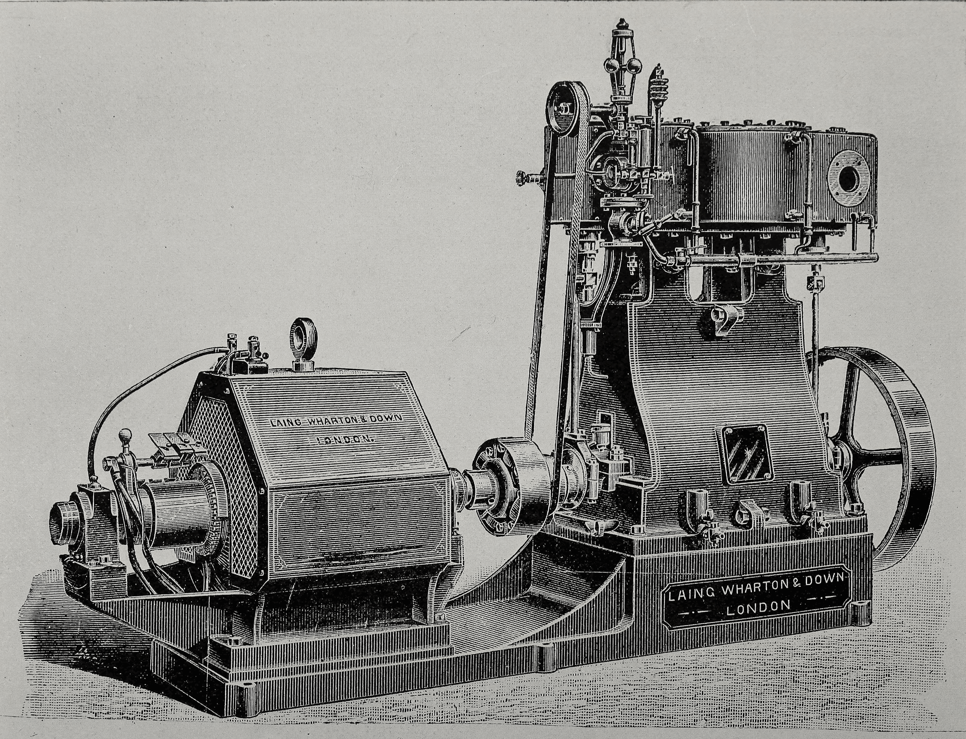 Cassier's Magazine of September 1892 had an article on page 365-373, describing Direct-Connected Engines. Among them was this steam-driven generator from Laing, Wharton & Down, illustrated on page 372. The generator was used at the Crystal Palace, to illuminate the entertainment court.